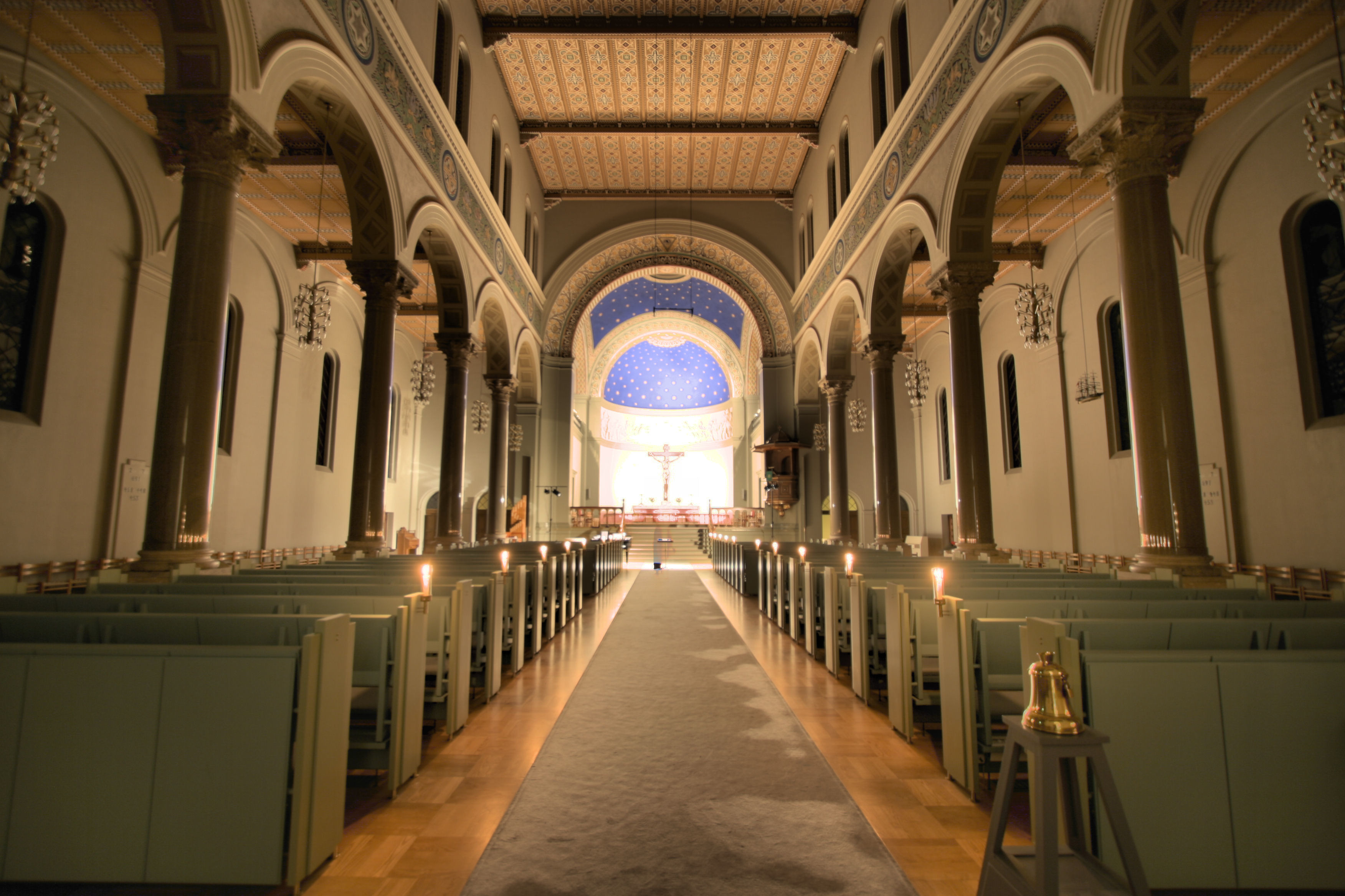 Sankt Pauls Kirke, Copenhagen, Denmark. Interior. Image combined from 5 photos with different exposures (-2 to +2). Stitched with Corel Paint Shop Pro Photo X2.